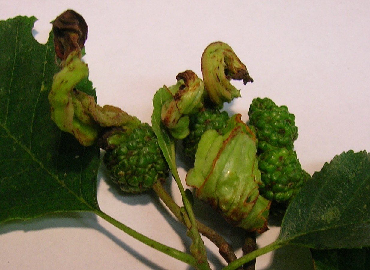 Taphrina alni languets on Alder (Alnus glutinosa) pseudocones. Dalgarven Mill, Kilwinning, Scotland.